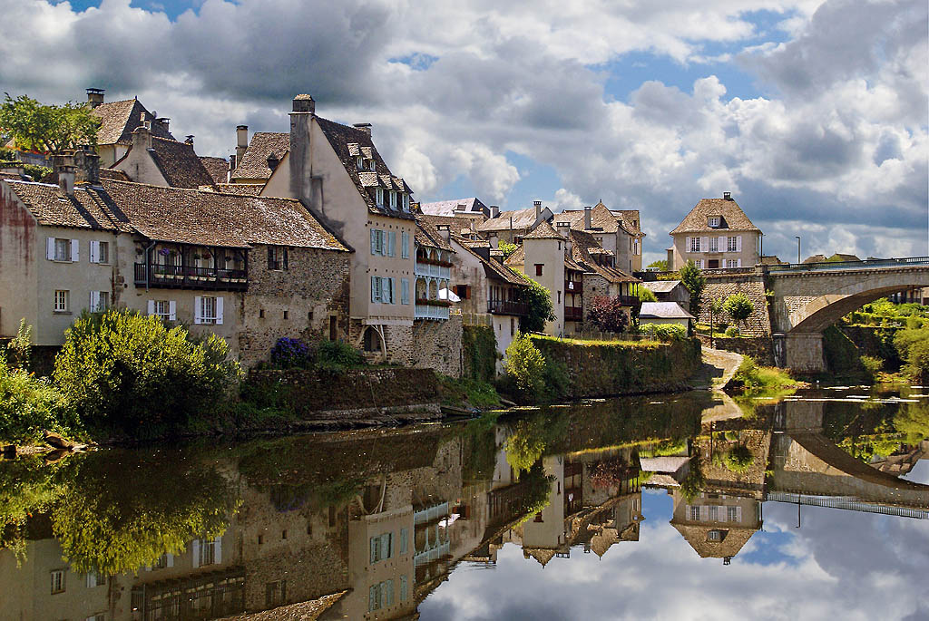 The pleasant market town of Argentat in southern Limousin. The Dordogne river and the southern part of town with the Pont de la République in the distance.